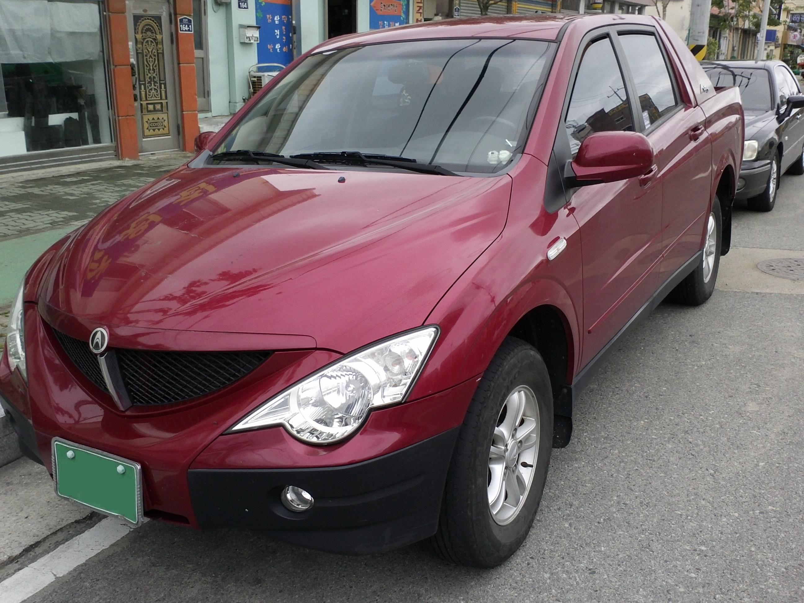 SsangYong Actyon Sports